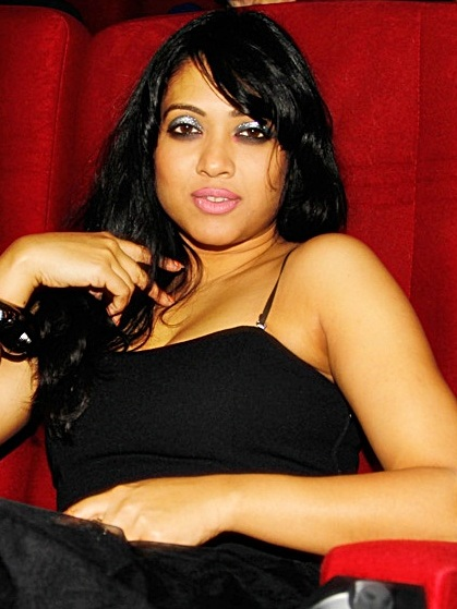 Anubrata Basu